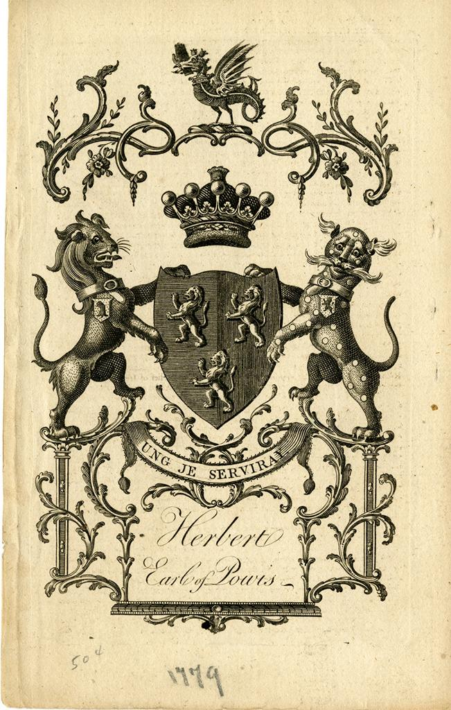 Armorial/Heraldic Bookplates. Subject: Coat of arms; Shields; Animals; Crowns; Floral. Subject - Family Name: Herbert.